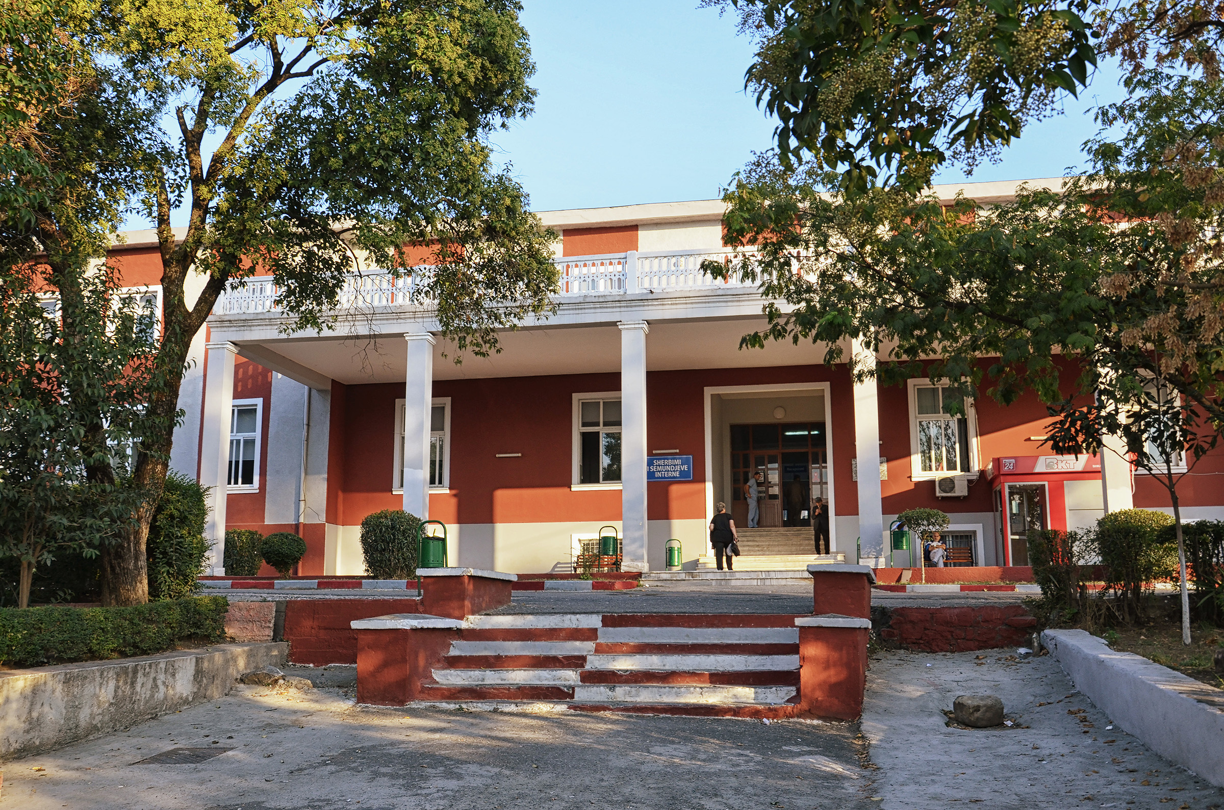 The regional hospital in Elbasan, Albania